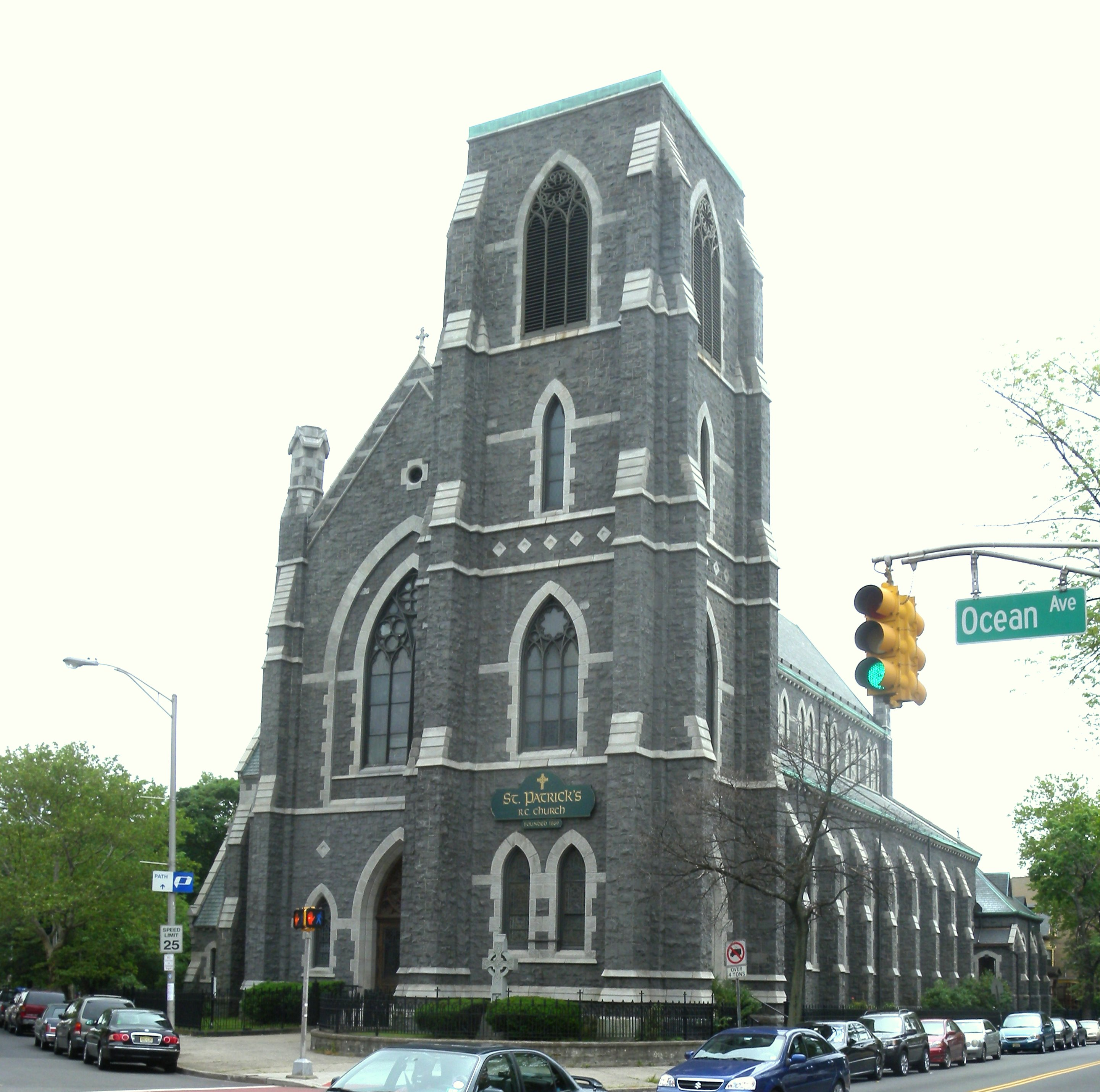 Looking east across Ocean and Bramhill Avenues at St Pat's on a cloudy morning.